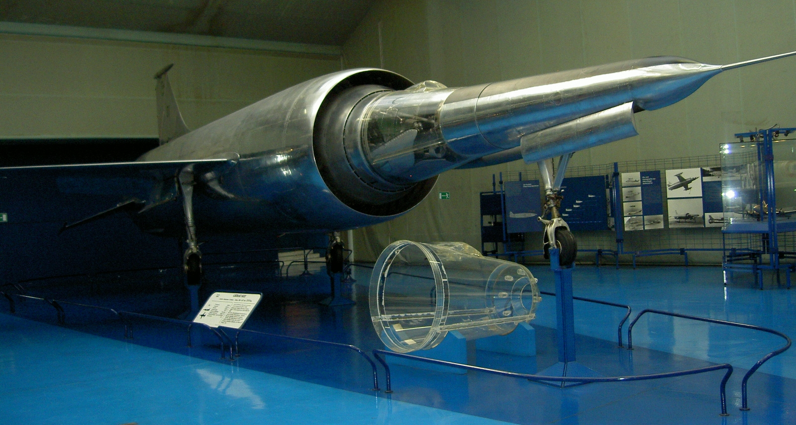 French experimental aircraft (Leduc 022)